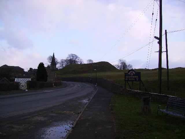 Burton in Lonsdale. Motte and Bailey mound just in the square. Church spire visible is in the next square